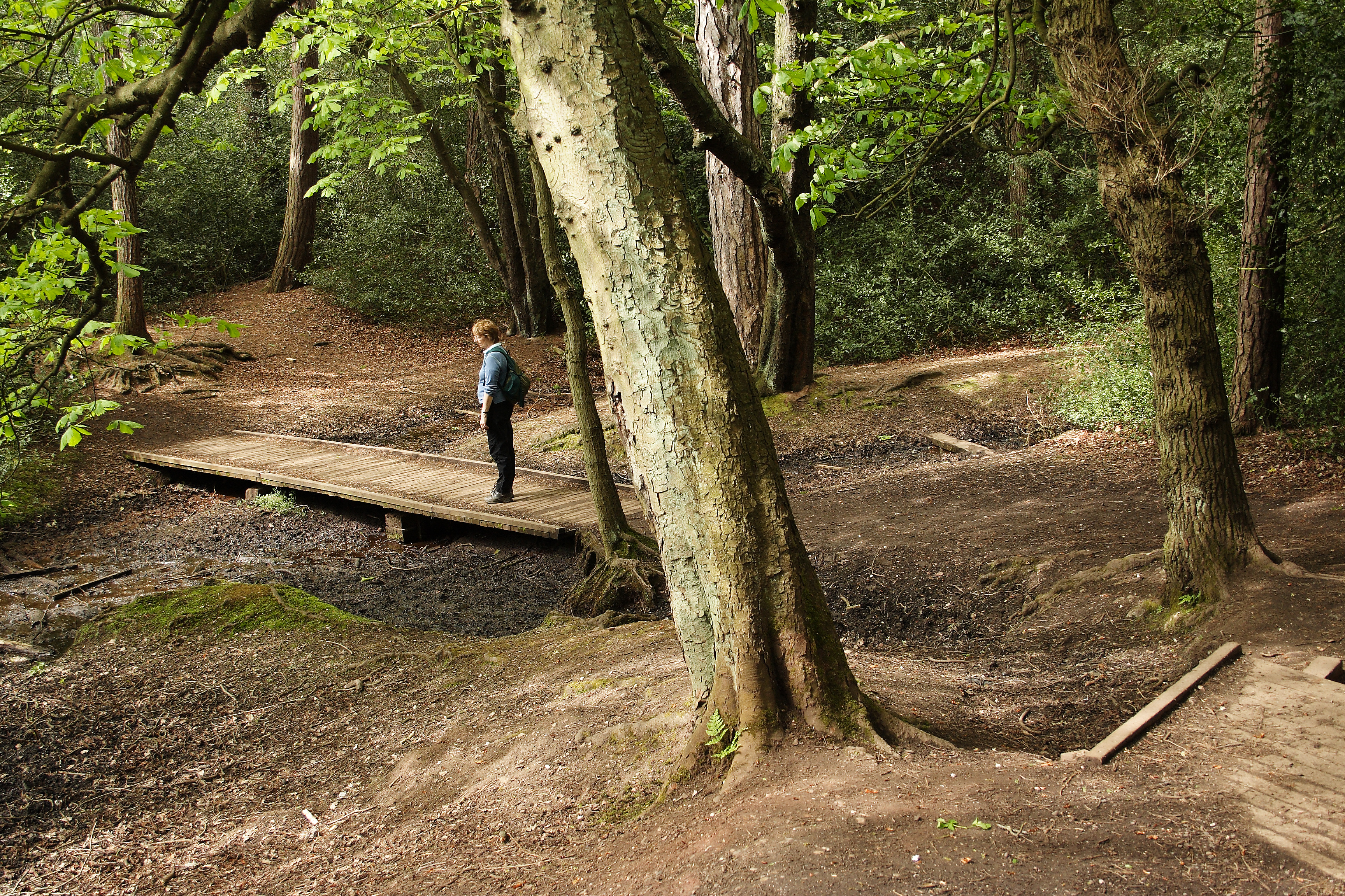 Boggy walk with countless footbridges by Bracebridge Pool, Sutton Park